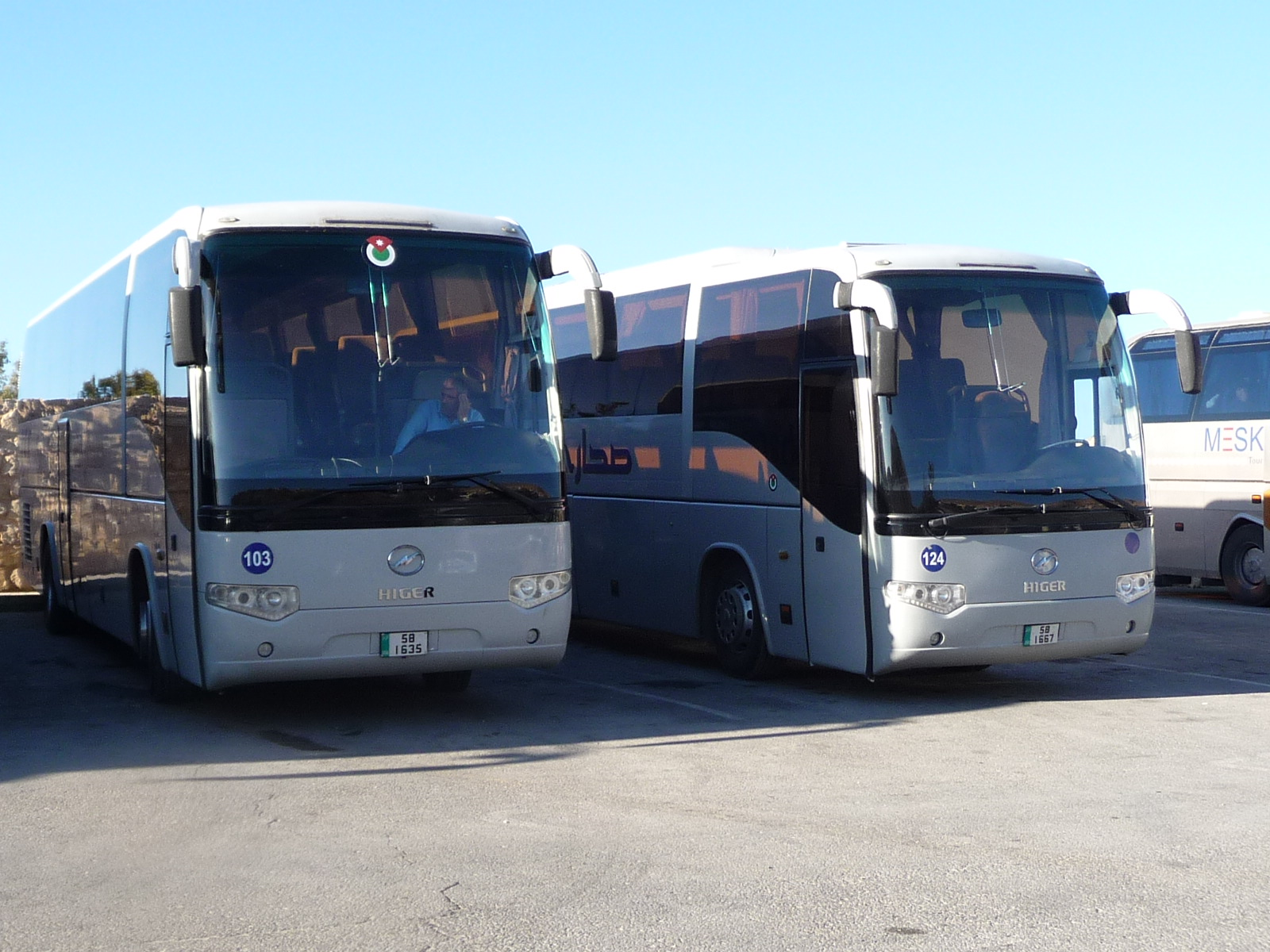 Chinese Higer tourist buses in Jordan. From left to right: Higer KLQ6129Q (reg. 58-1635; #103} and next Higer KLQ6129Q (reg. 58-1667; #124}.